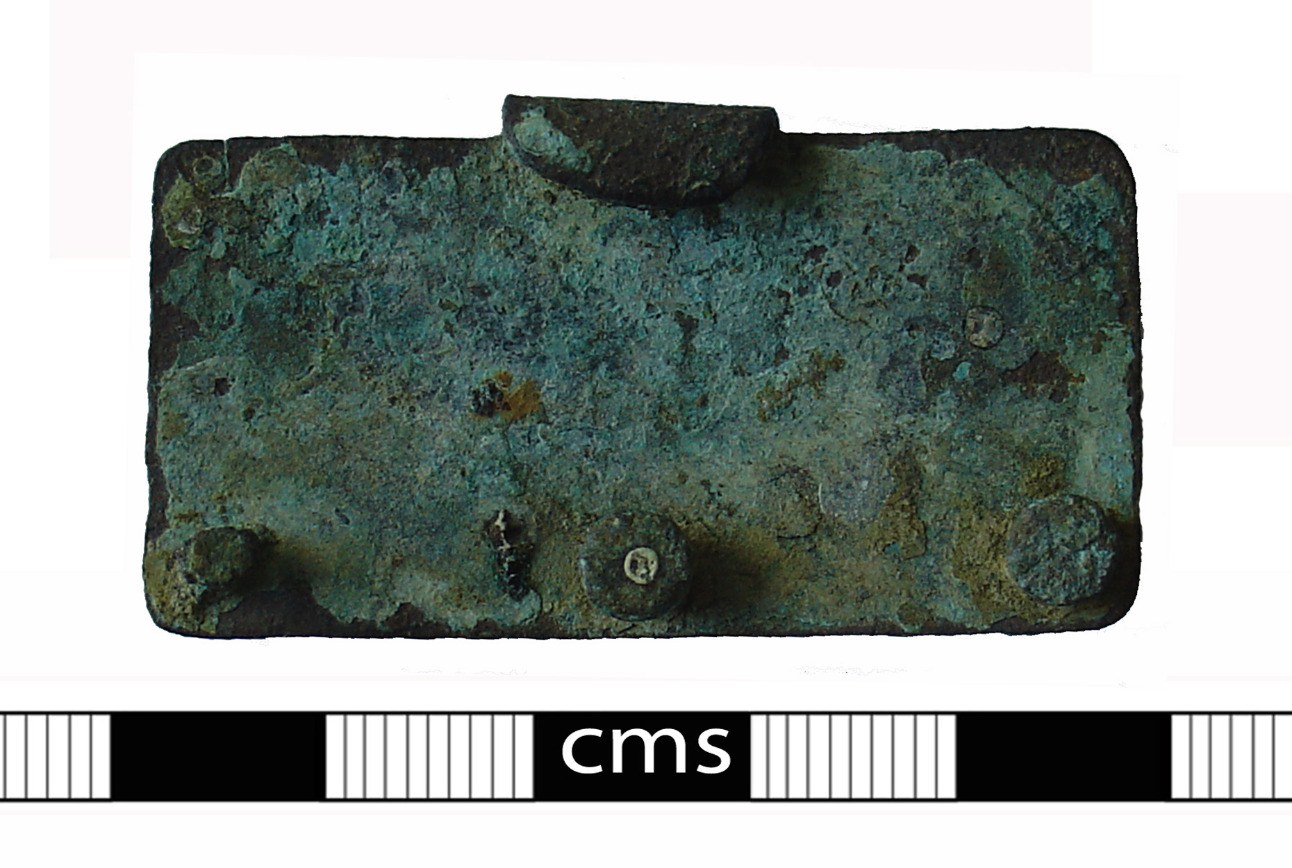 A cast copper alloy sleeve clasp probably dating from the 5th to 7th century. The clasp consists of a rectangular plate, undecorated on either side, with an integrally cast short hook located at the centre of one long edge on the reverse. On the opposing edge are three copper alloy rivets with wide round heads (intact). One of them has a small white insert of an unknown material. The missing, opposite half of the fastener would have had a hole where the lip fitted and secured it. These type of clasps would have secured clothing at the sleeves, in a similar fashion to buttons to the sleeve of a shirt.